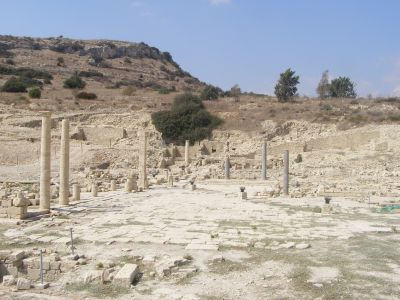 Ruins of the ancient city of Amathous (Cyprus)